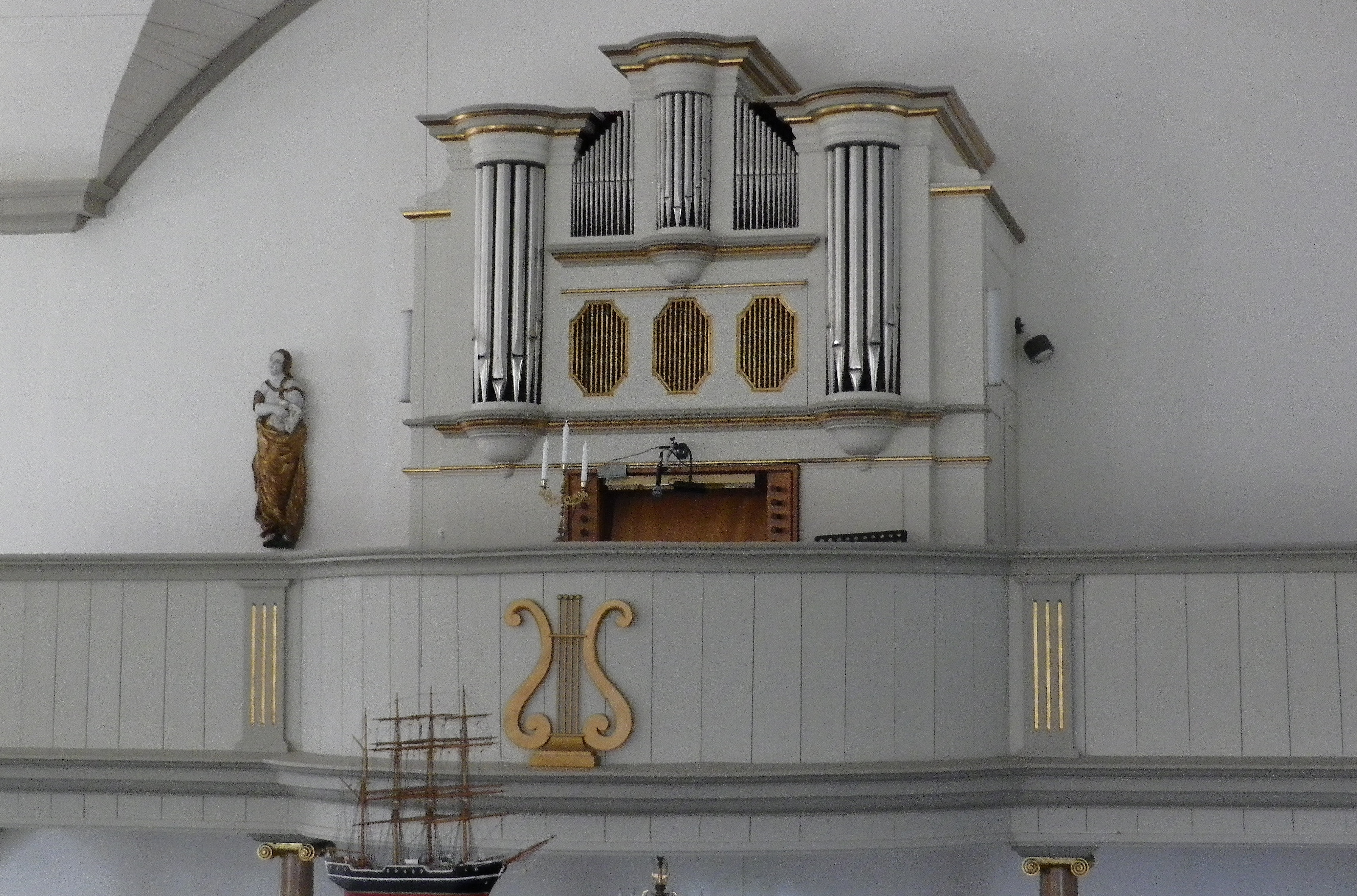 Persnäs Church.Organ